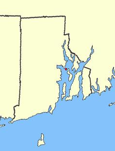 Patience Island, the fourth-largest island in Narragansett Bay. Edited from Image:Aquidneck Island map.gif, subject to GDFL license.